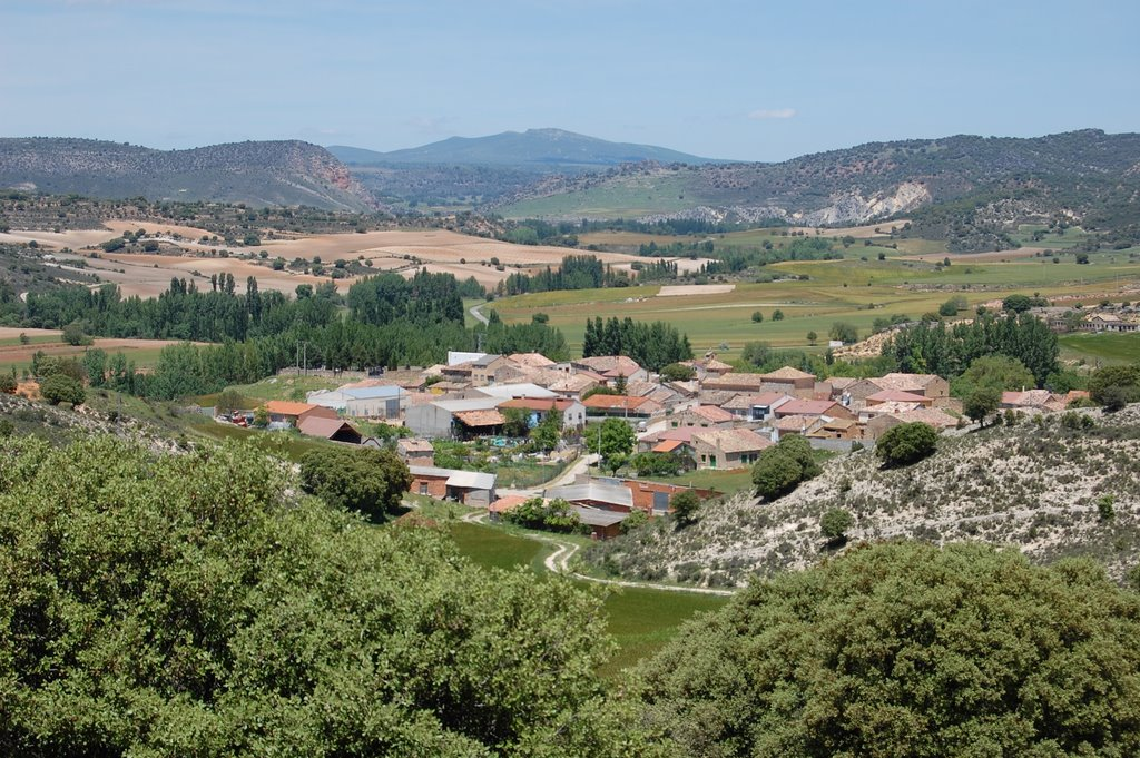 View of Viana de Jadraque, Guadalajara, Spain.